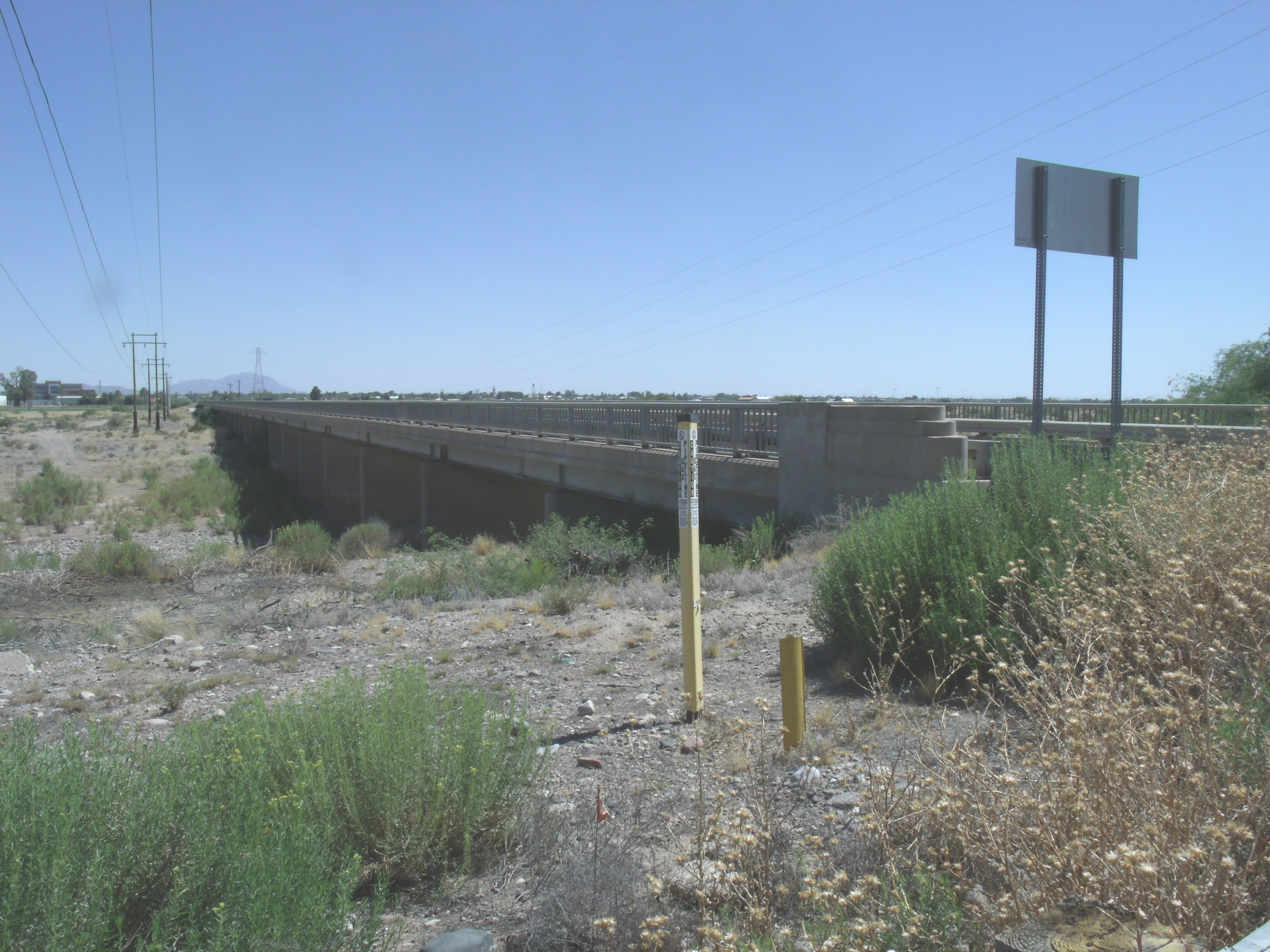 Bridge in Florence, Az. over the Gila River. The Gila River served as a part of the border between the United States and Mexico until the 1853, when the Gadsden Purchase extended American territory well south of the Gila River..